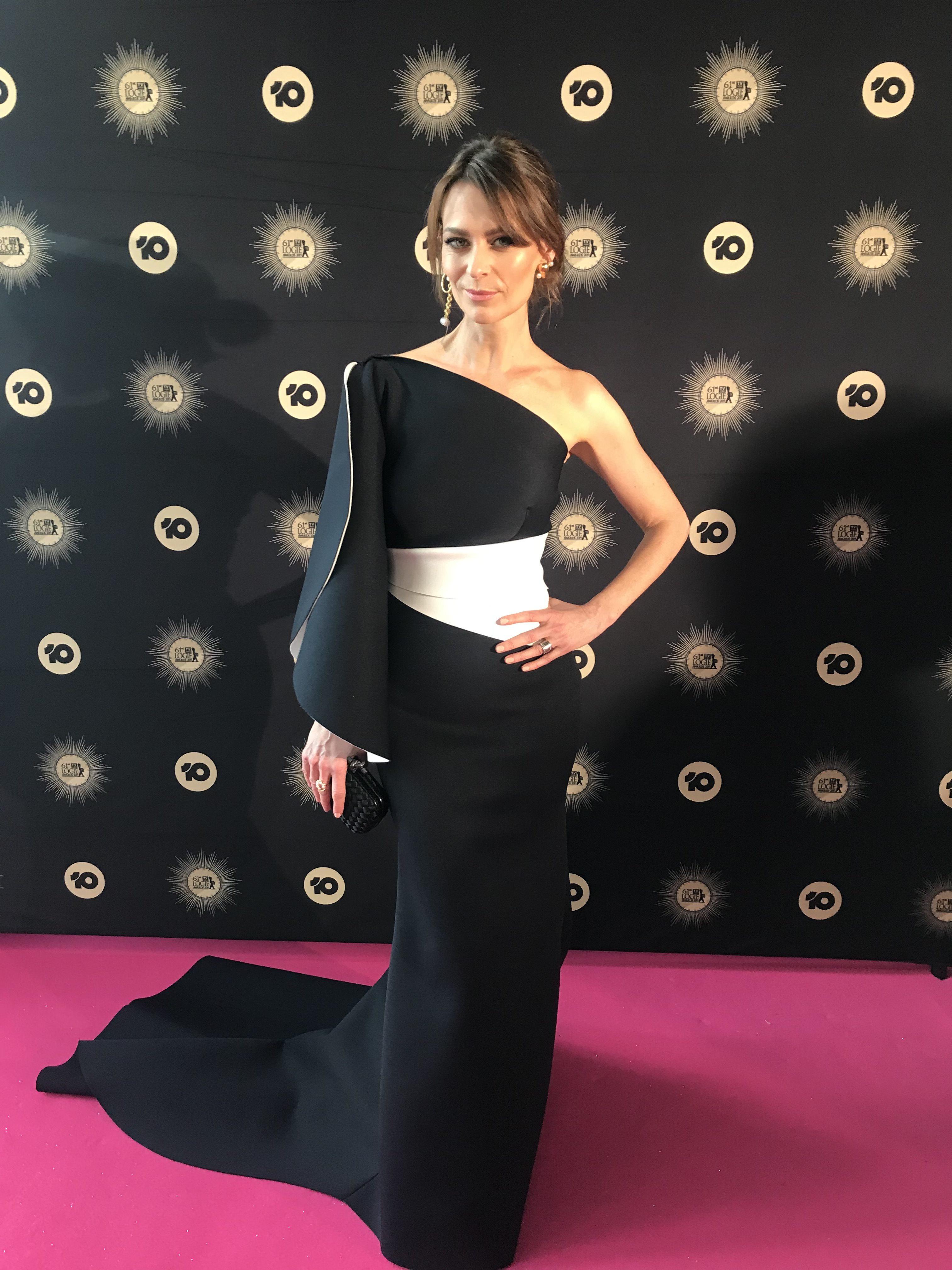 Kat Stewart at the Logie Awards - June 2019